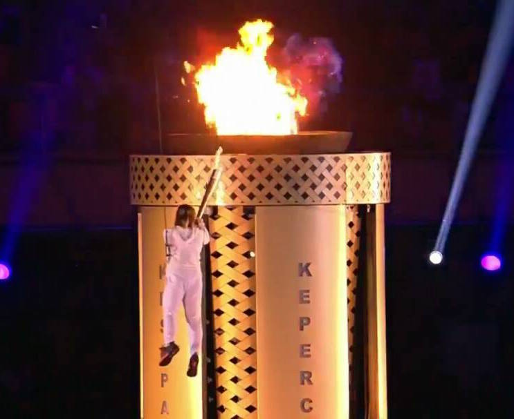 Nur Dhabitah, suspended high in the air to officiates 2017 SEA Games Malaysiaby lighting up the cauldron.